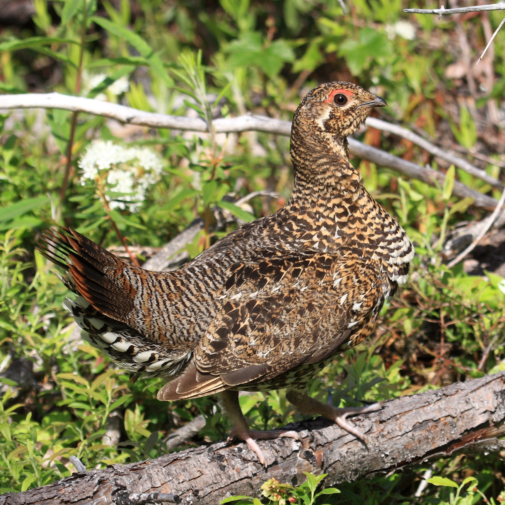 Spruce Grouse, female, Grands-Jardins National Park, Quebec, Canada.